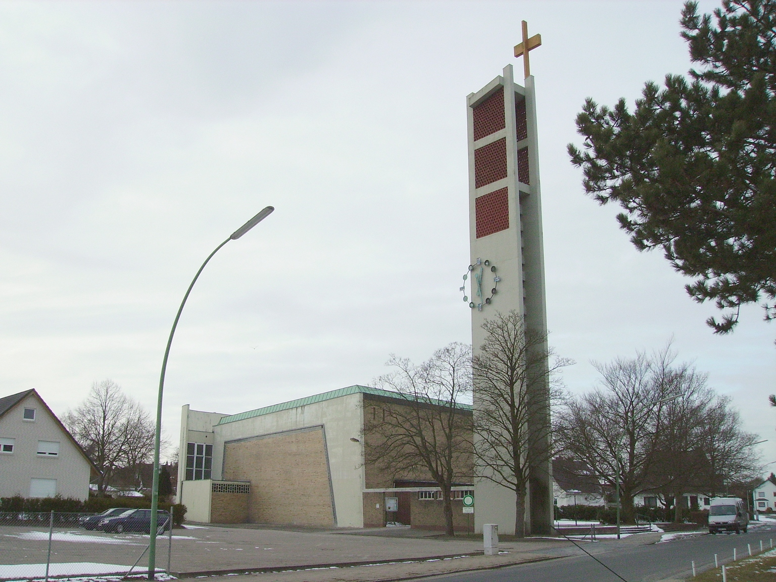 The catholic St Nikolaus Church in Bremerhaven, Germany. The 1959 built church is situated in Bremerhaven's urban district of Wulsdorf. The church was deconsecrated on 27 February 2010.